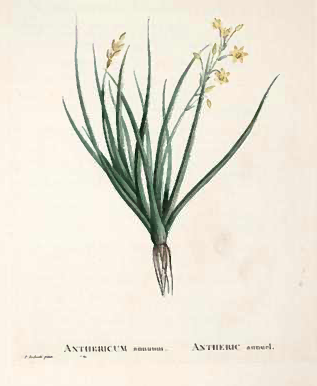 Anthericum annuum. Illustration from Plantarum historia succulentarum =Histoire des plantes grasses /par A.P. Decandolle ; avec leurs figures en couleurs, dessinees par P.J. Redoute. Paris : A.J. Dugour et Durand, an VII [1799-1837]